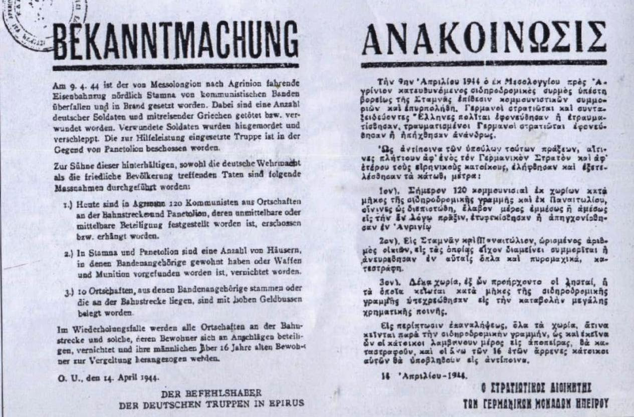 Ads and warning of the occupation authorities, Agrinion, Greece, April 14, 1944